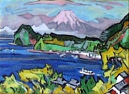 Landscape with Fuji